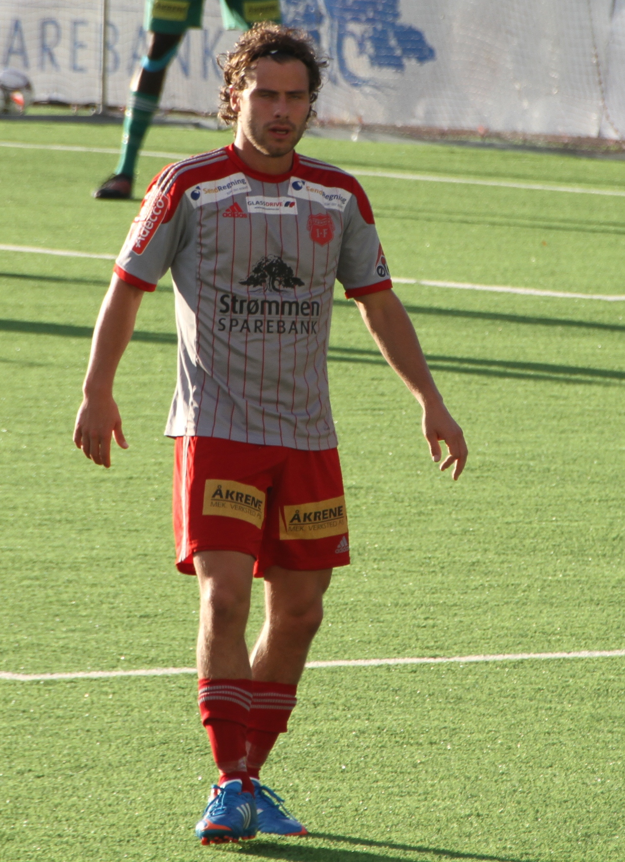 Strømmen IF player, at Strømmen stadium, Akershus, Norway